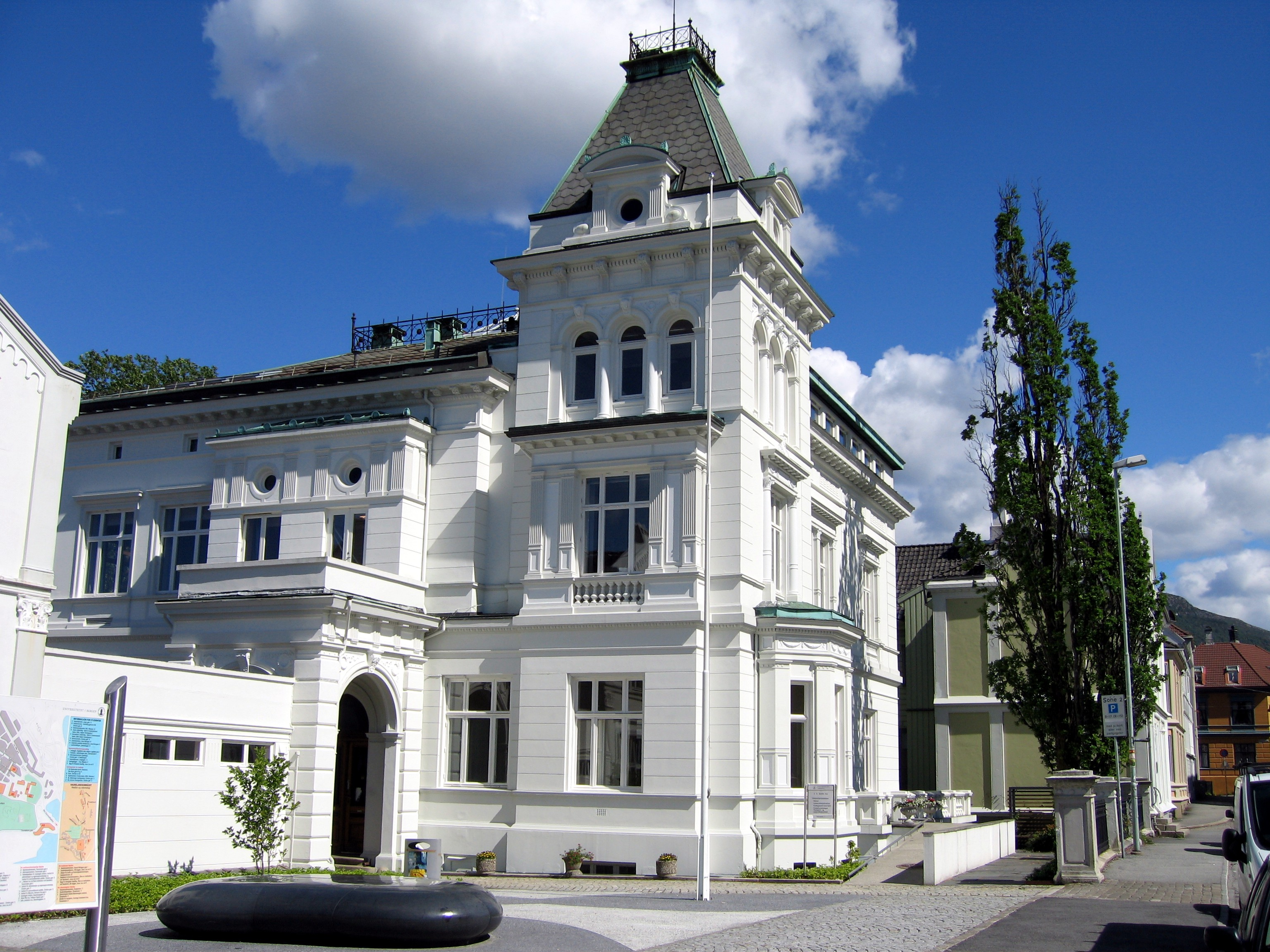 "Sundts villa", rector's Office, Museplassen 1, University of Bergen